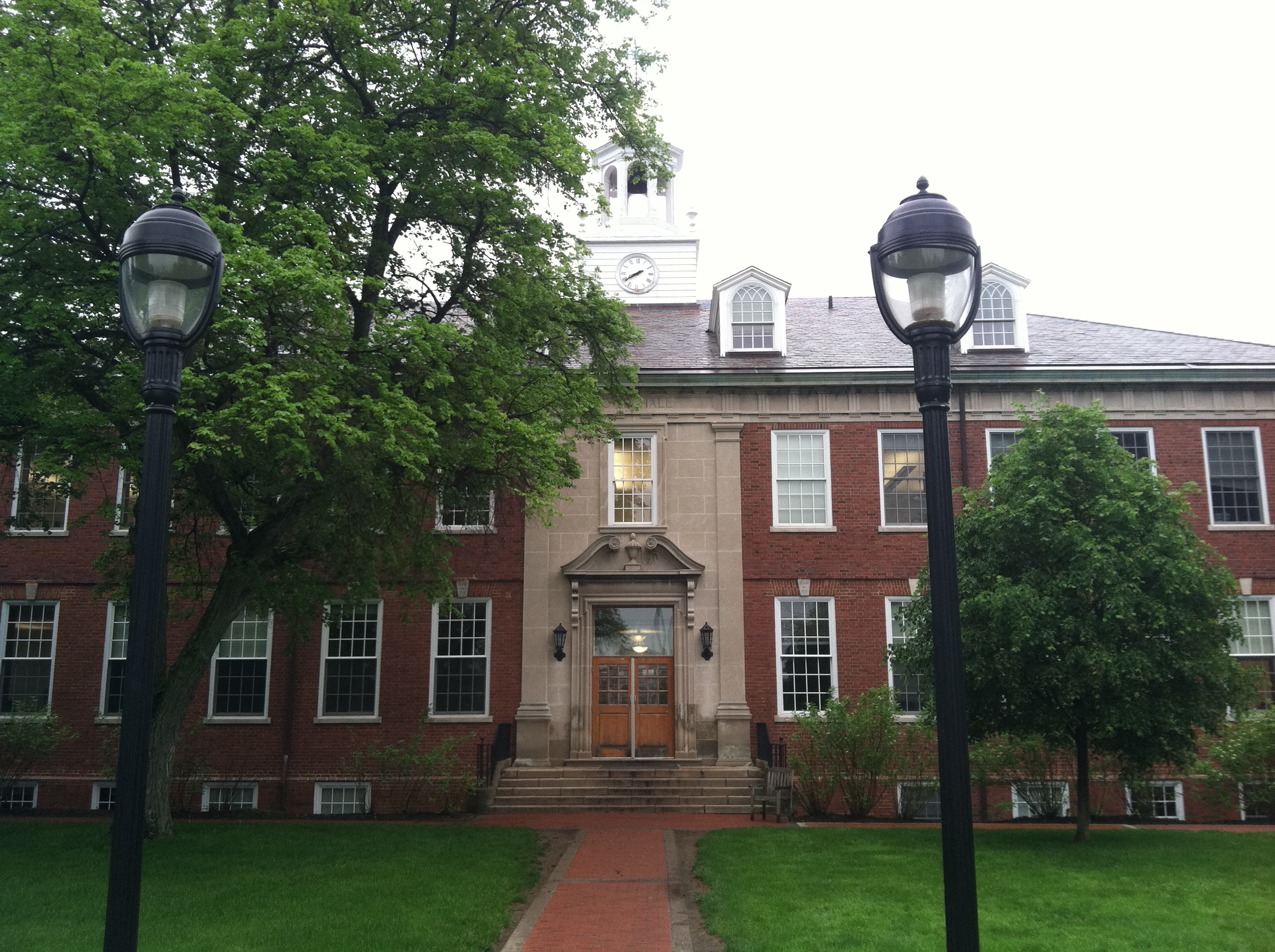 Rowe Hall is Shady Side Academy's main academic and administrative building. Façade depicted